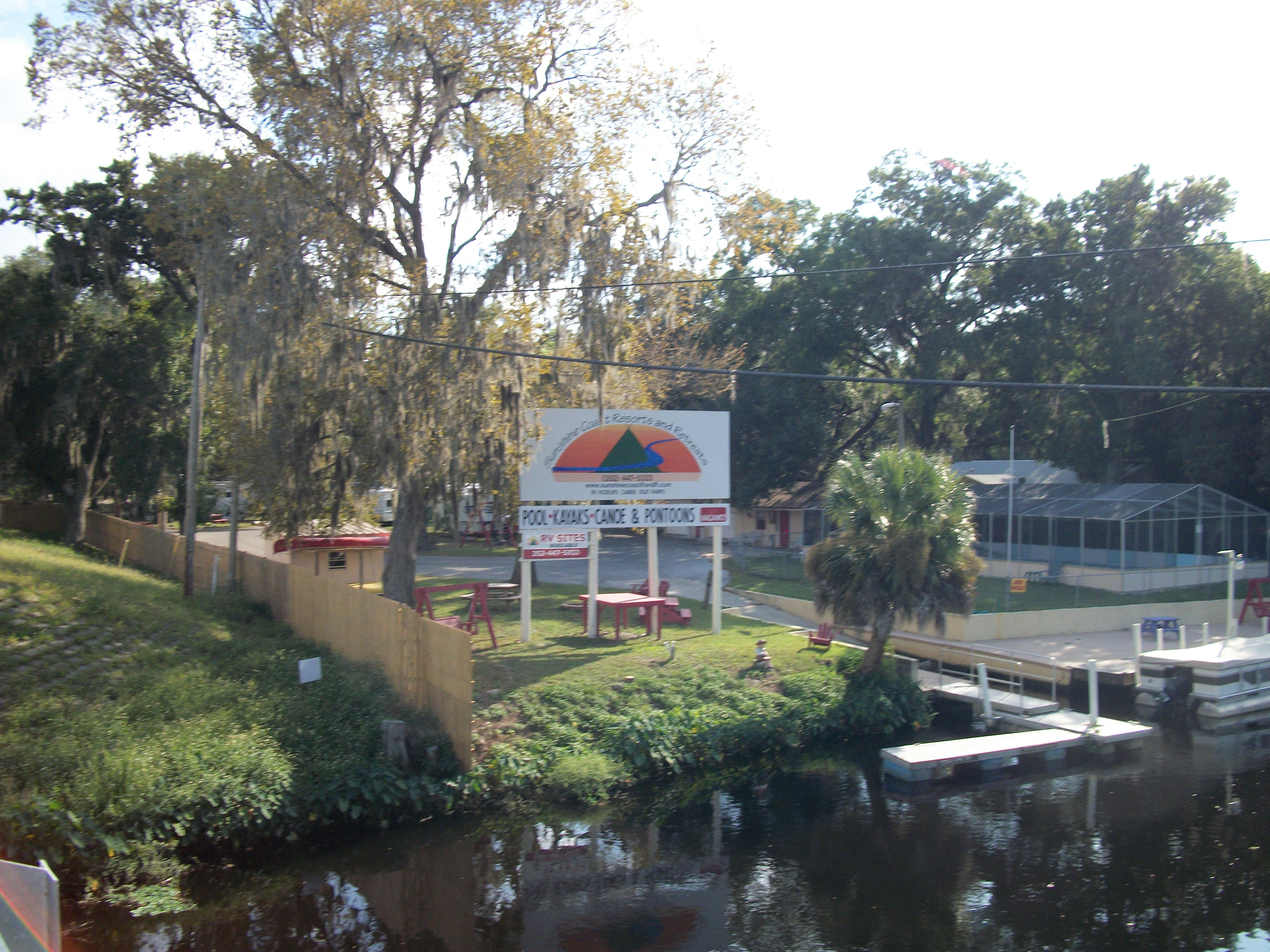 Sign for a trailer park and recreational boating resort on the Withlacoochee River at the foot of the bridge carrying Southbound US 19-98. The camp and the sign are in Red Level, Florida, but since this is on the Citrus-Levy County Line, it can also be seen from Inglis.